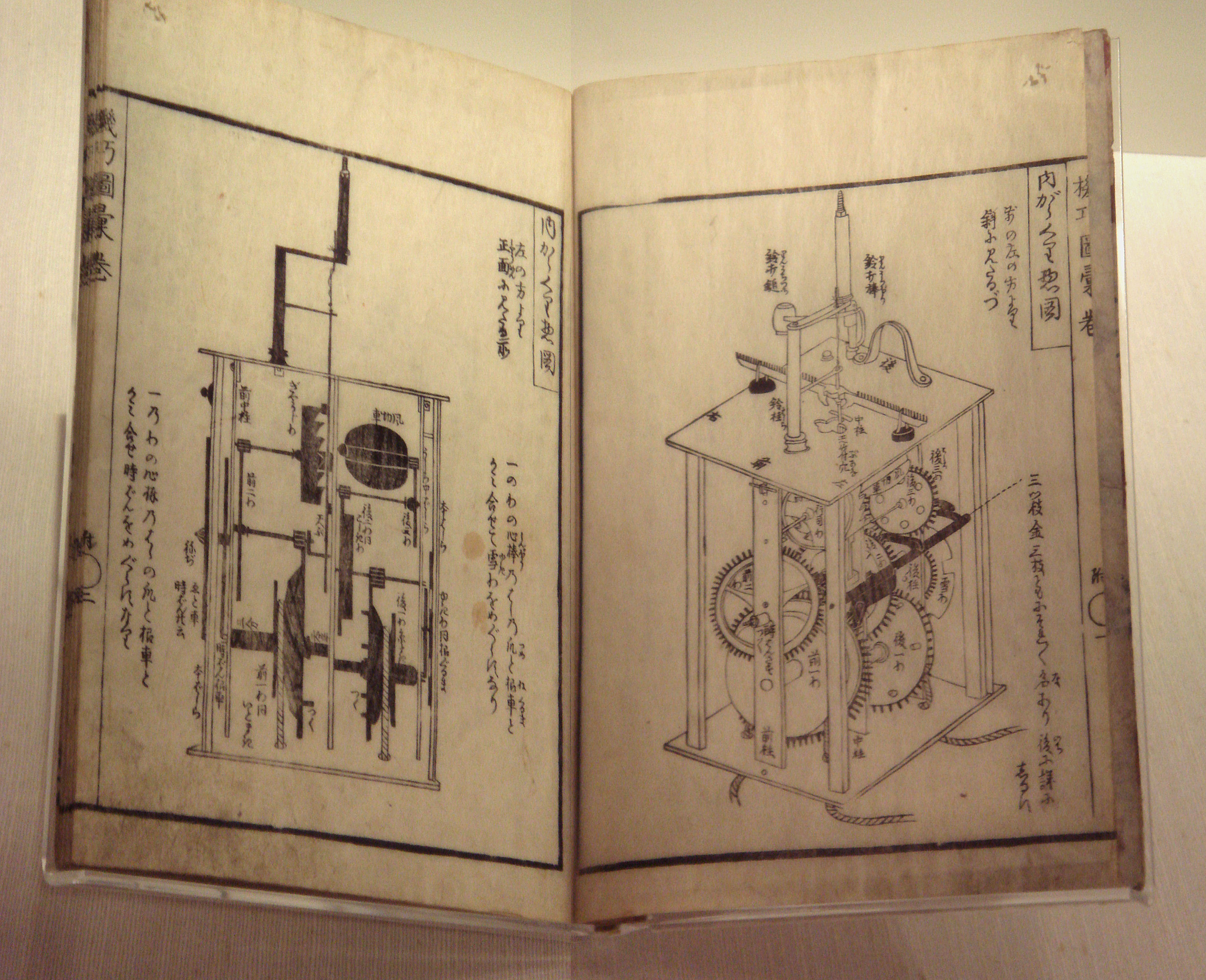 "Karakuri Zui" ("Illustrated Compendium of Mechanical Devices"), by Hosokawa Hanzou, 1796.